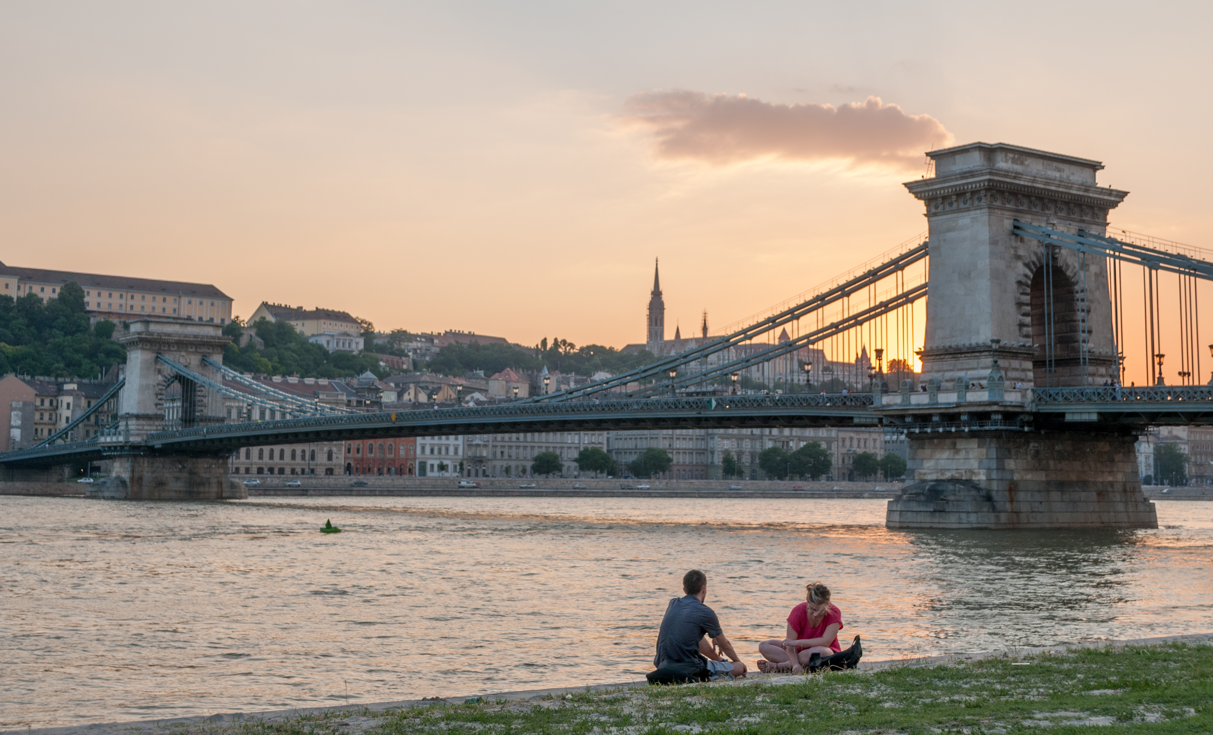 Budapest city